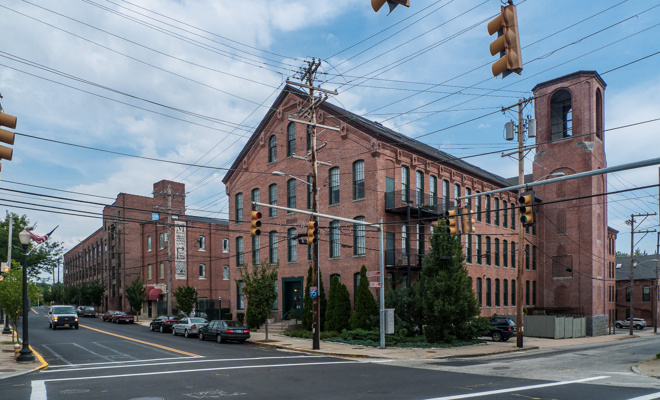 Pawtucket Hair Cloth Mill, Central Falls Mill Historic District, Between Roosevelt Avenue and the Blackstone River Central Falls